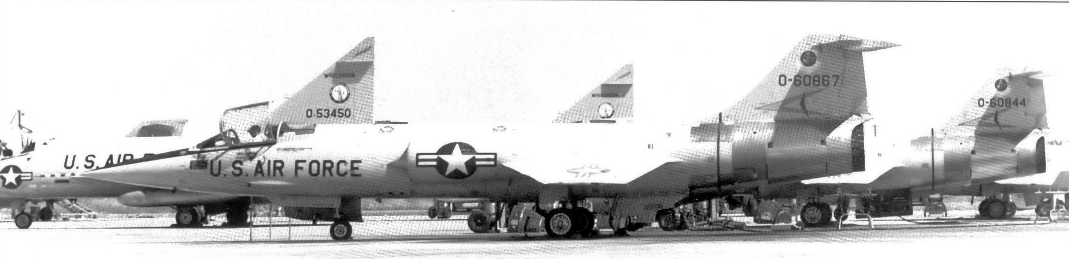 331st Fighter-Interceptor Squadron Lockheed F-104A-25-LO Starfighter 56-867 Webb AFB, Texas April 1965 Aircraft retired Dec 11, 1969. To Taiwan as 4256